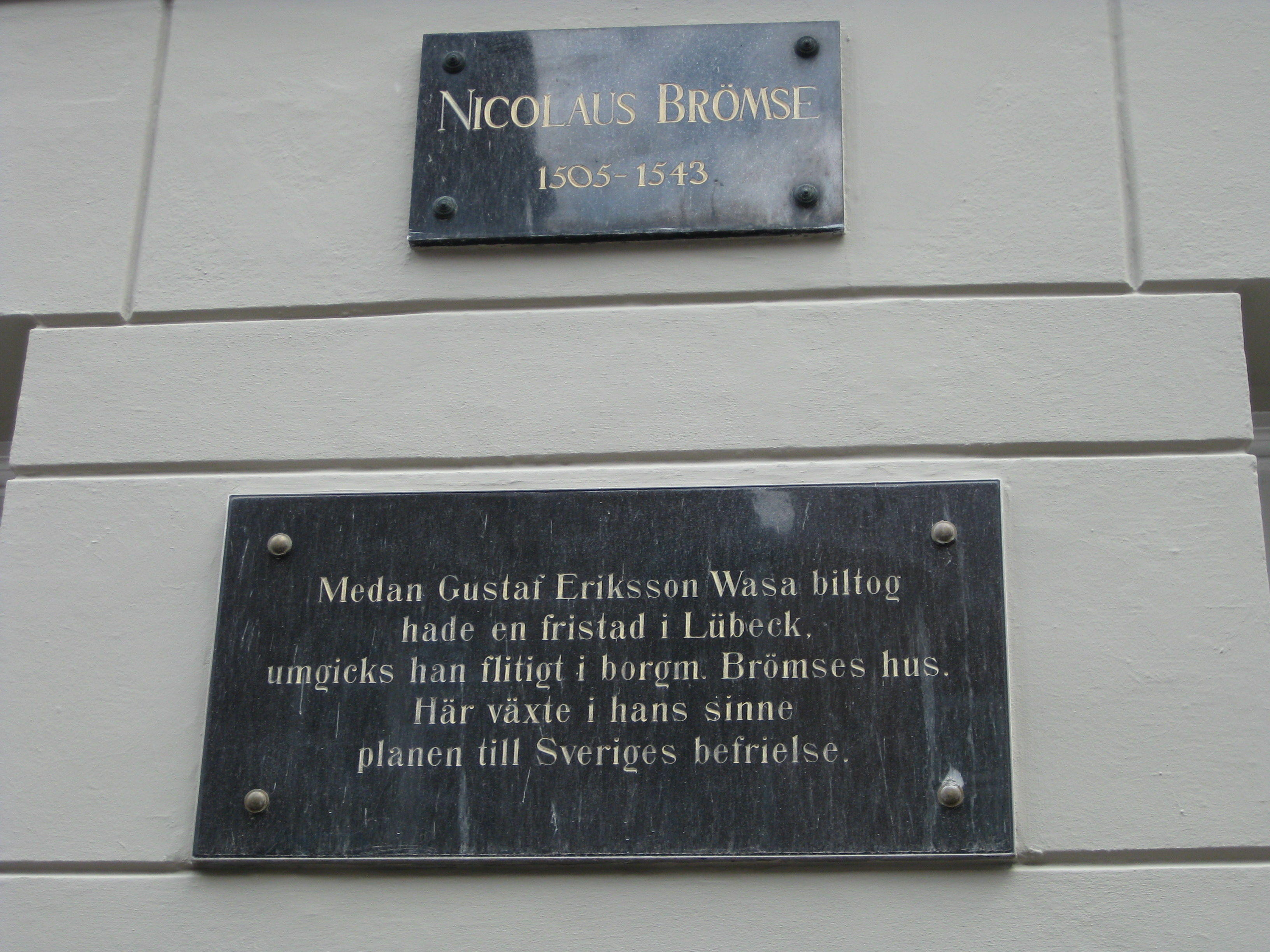 Erinnerungstafeln am Hause Königstraße 9 in Lübeck zum Gedenken an den früheren Eigentümer, den Bürgermeister Nikolaus Brömse, und darunter an die Unterbringung Gustav Wasas nach dessen Flucht aus Dänemark durch Brömse.